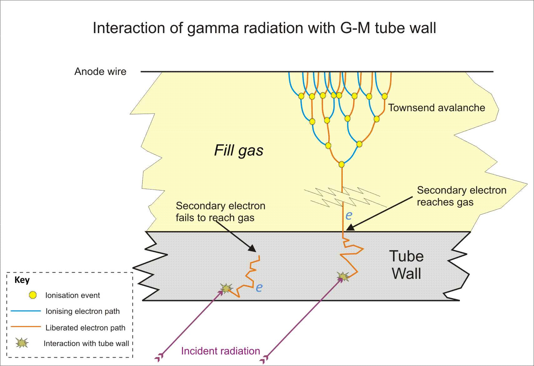 Diagram showing the effect of gamma on a thick-walled Geiger chamber